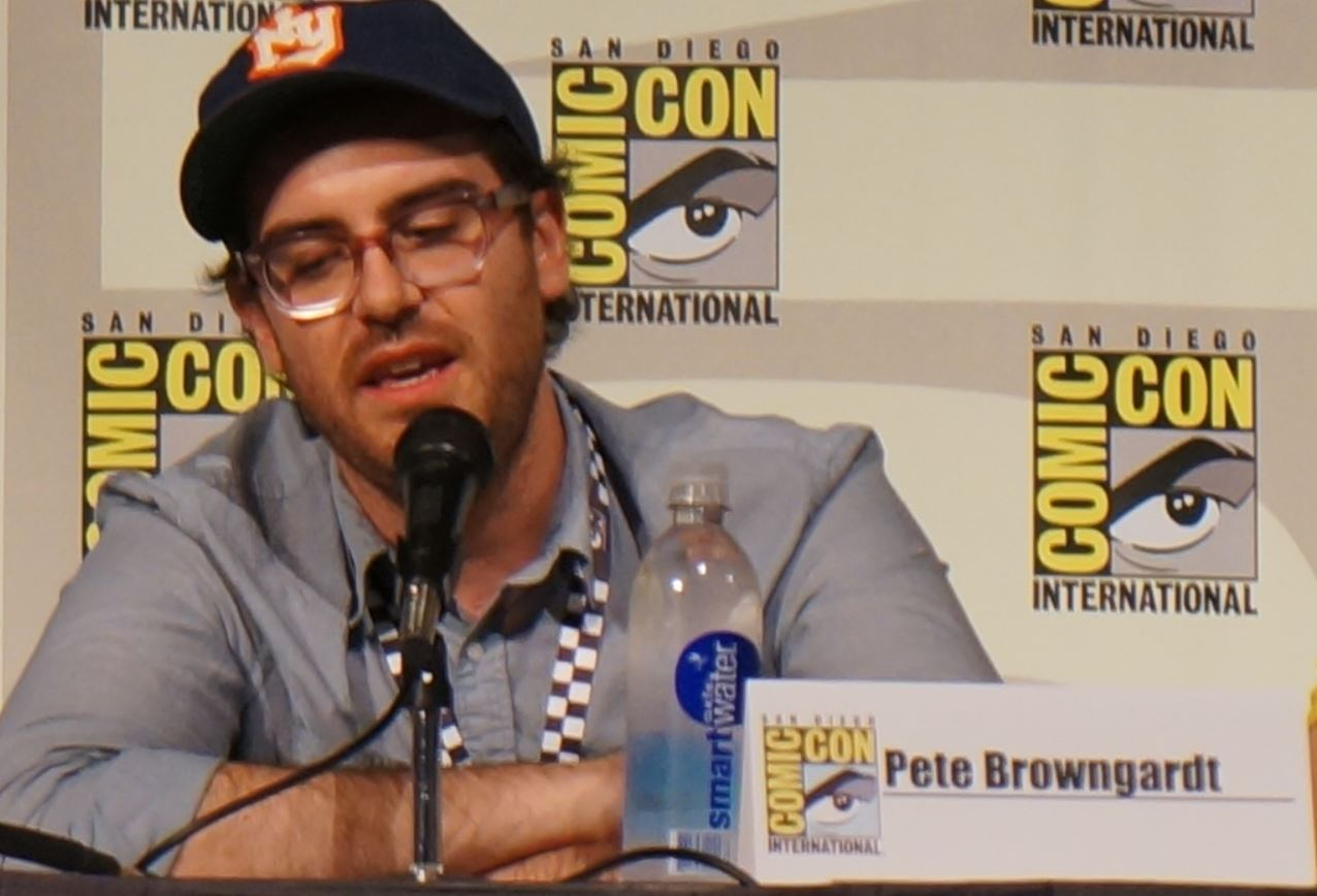 comic con 2014